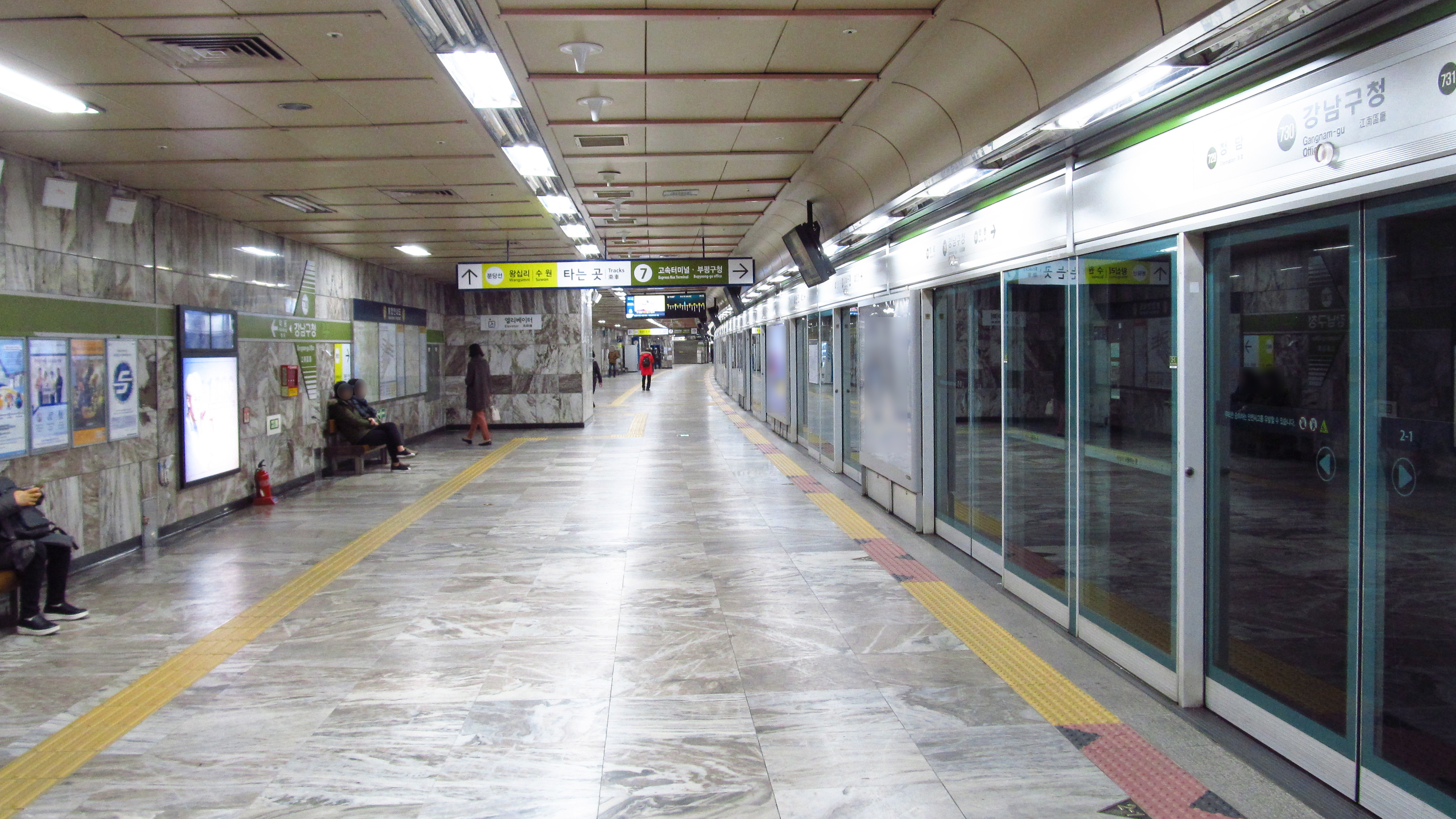 The platform at Gangnam-gu Office Station on Seoul Subway Line 7 in Gangnam-gu, Seoul, Republic of Korea(South Korea)